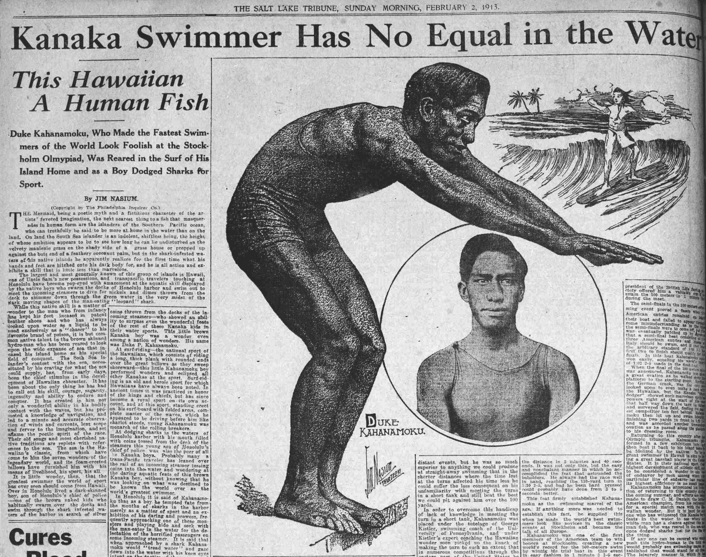 A newspaper page with an article and photos featuring Duke Kahanamoku. Read about Duke Kahanamoku in U.S. Newspapers: The Salt Lake Tribune, February 2, 1913, SPORTING SECTION, Image 34